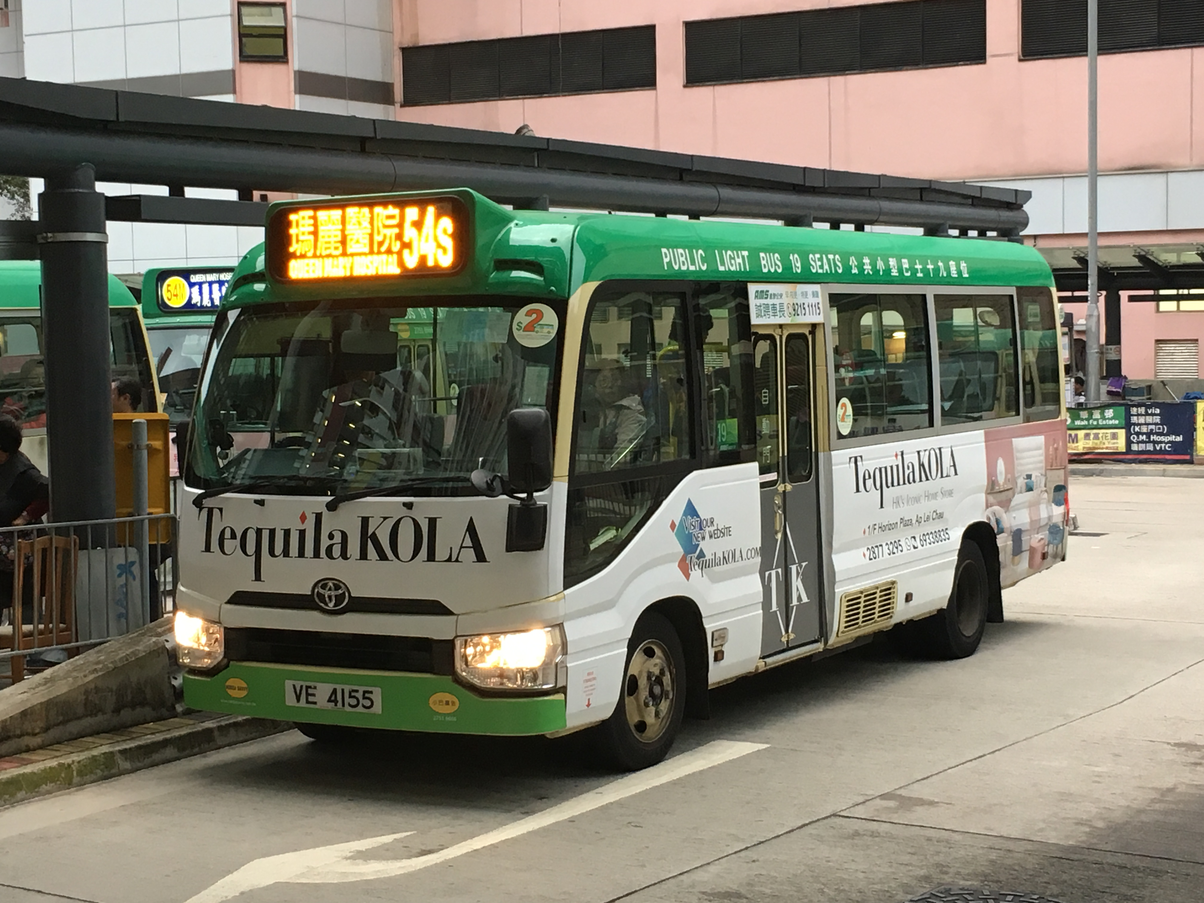 中文（香港）: This photo is taken in Kennedy Town.